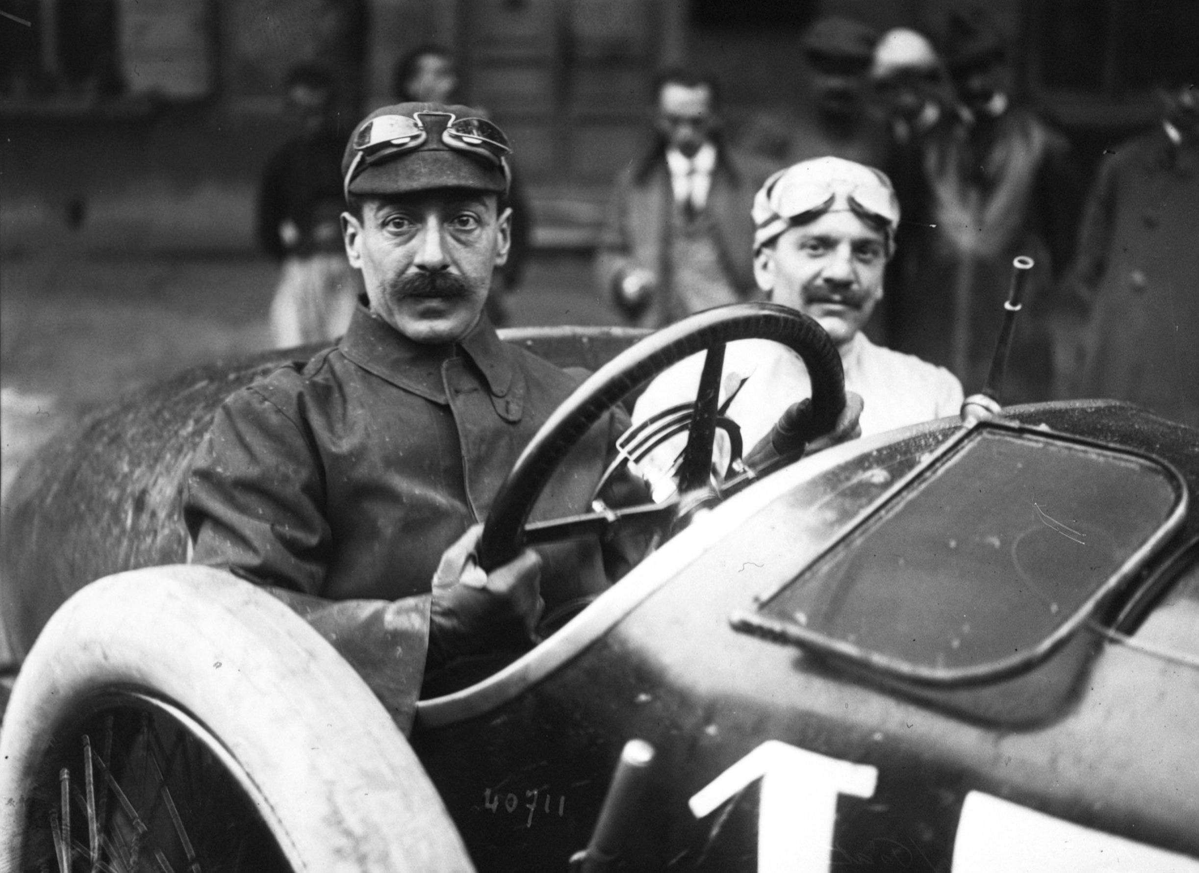 Alessandro Cagno and his mechanic